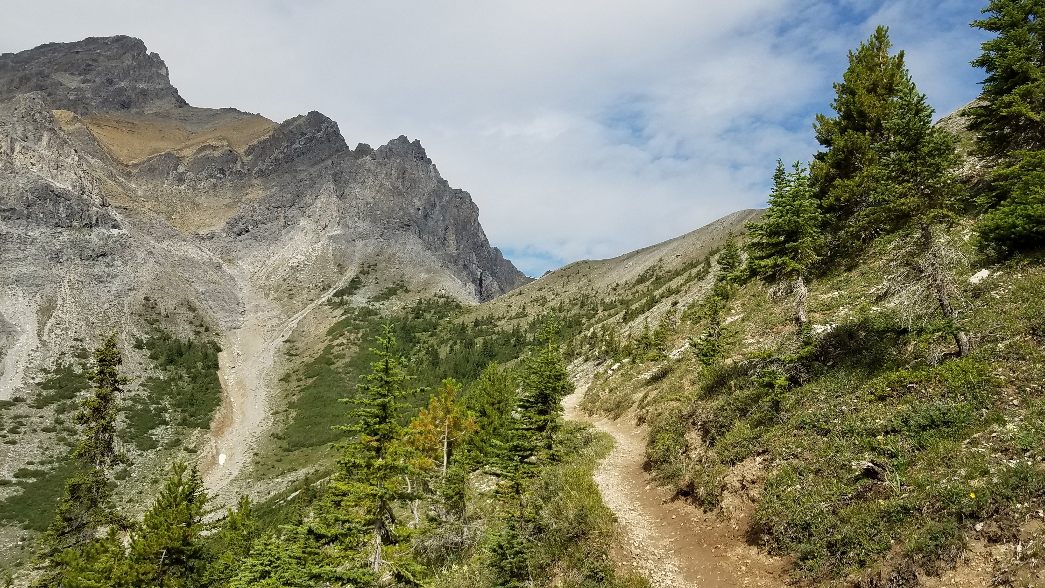 Cory Pass (center, end of trail), Mount Cory (right)